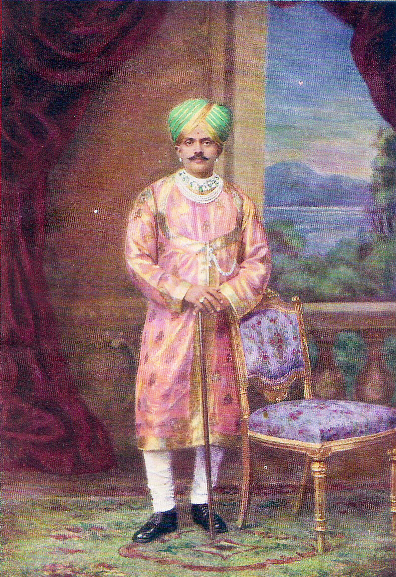 My personal colllection